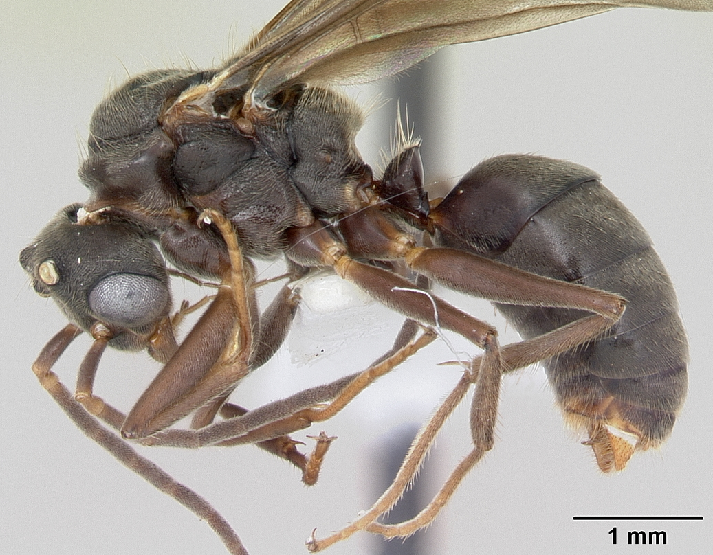 Profile view of ant Dolichoderus bispinosus specimen casent0173834.